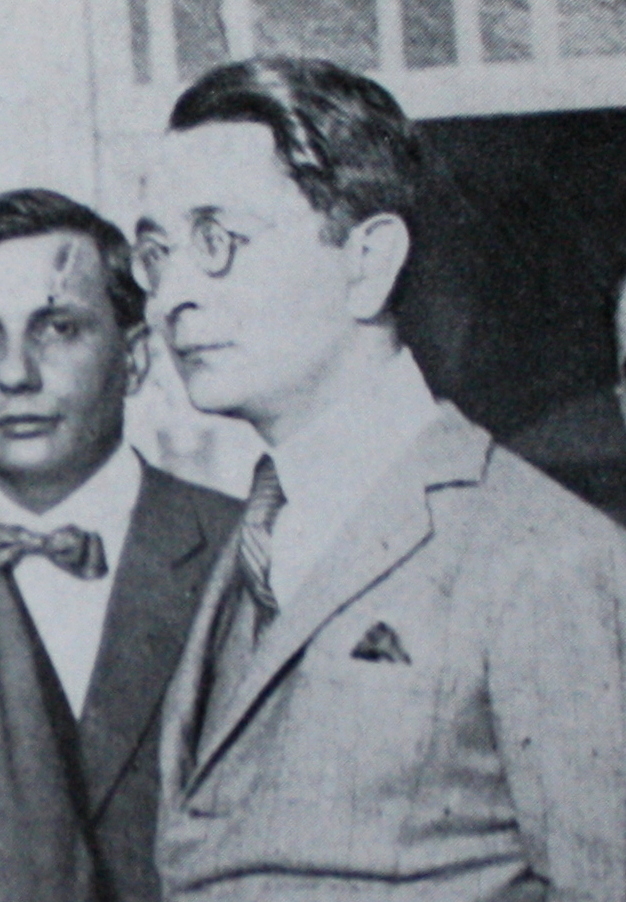 Gino Gori (third from the left), Giuseppe Navone (fifth from the left), Luciano Folgore (sixth from the left), Nicola Moscardelli (seventh from the left, standing).